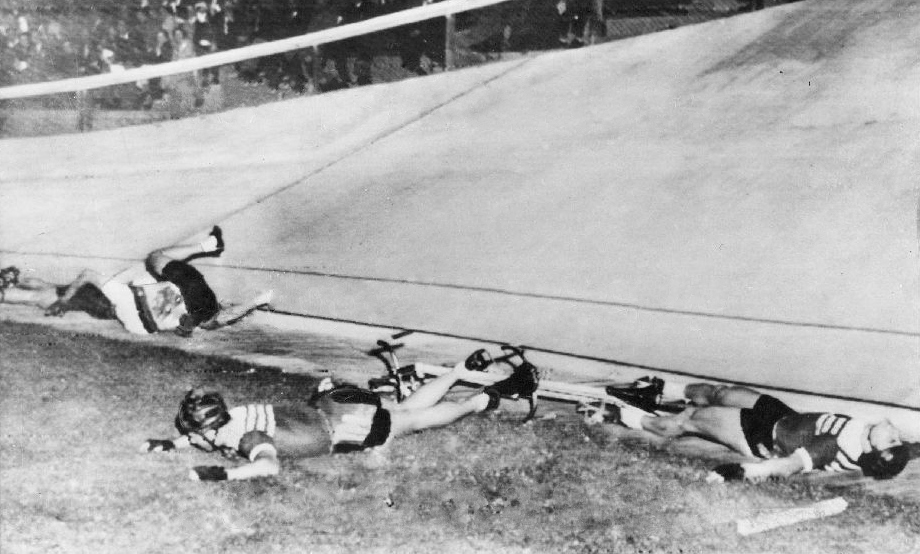 1956 Wire Photo Olympic Cyclists After Collision Melbourne Australia